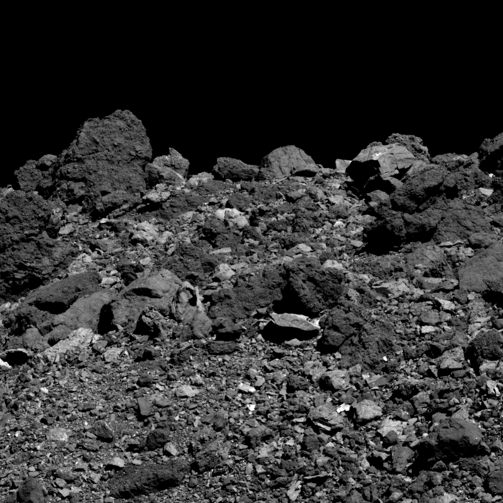 This image provides a steeply angled view of a region of asteroid Bennu’s equator and northern hemisphere. It was taken by the PolyCam camera on NASA’s OSIRIS-REx spacecraft on March 28 from a distance of 2.2 miles (3.6 km). The field of view is 170 ft (52 m) wide. For scale, the largest boulder in the upper left corner of the image is 48 ft (14.5 m) wide, which is about the length of a semi-truck trailer. The image was obtained during Flyby 4A of the mission’s Detailed Survey: Baseball Diamond phase. When the image was taken, the spacecraft was over the southern hemisphere, pointing PolyCam up toward the far north.